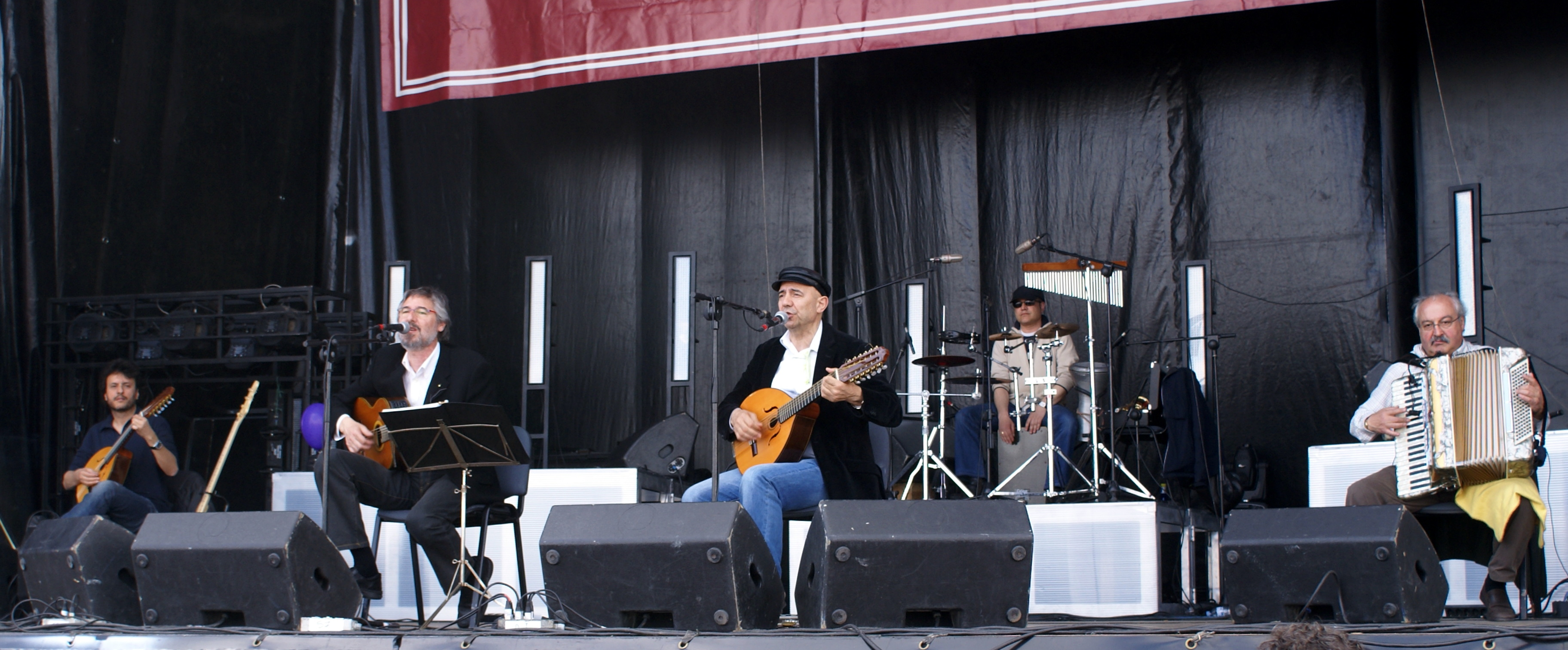 Candeal, Spanish folk band playing in Villalar de los Comuneros.